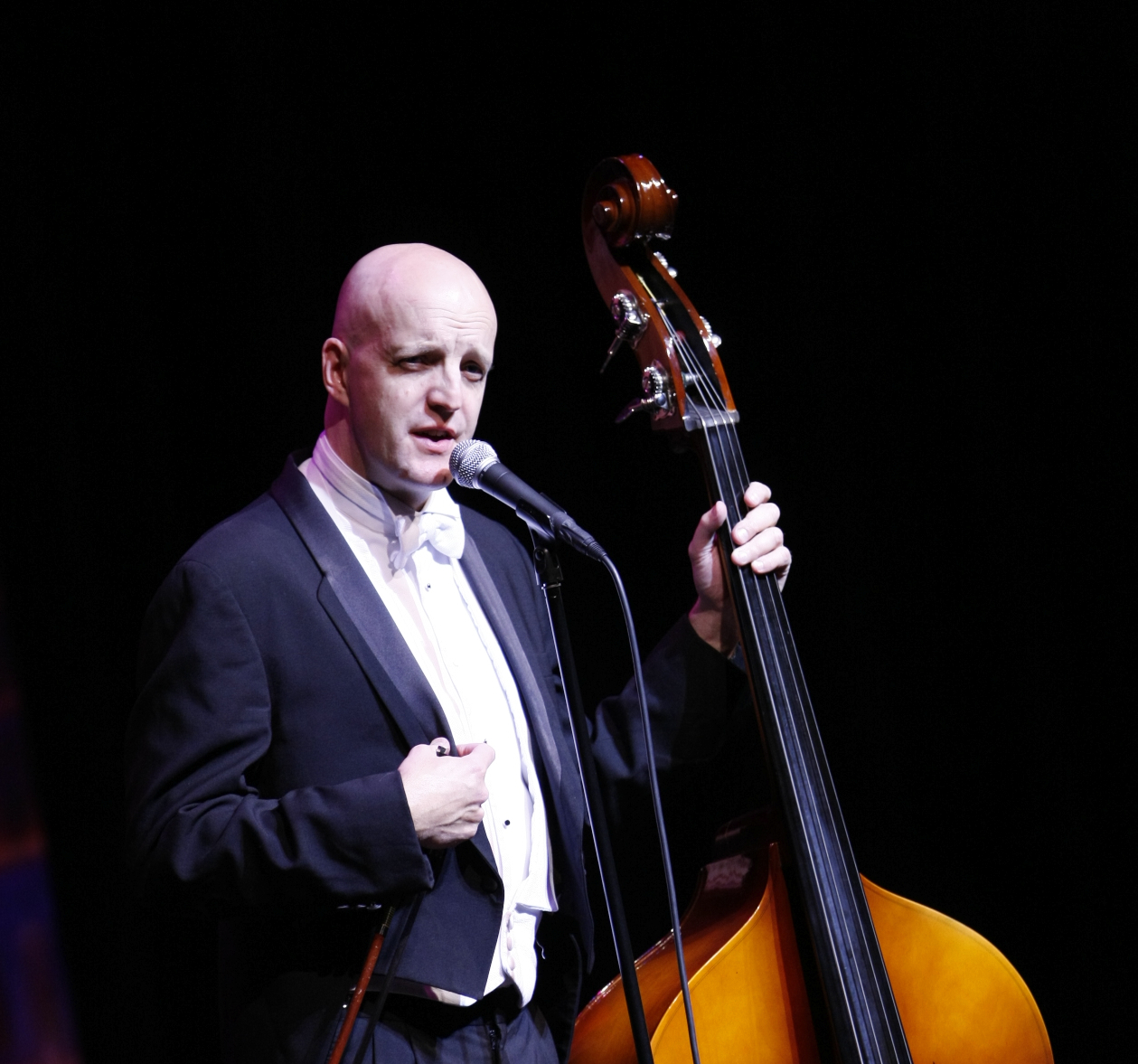 Jim Tavaré